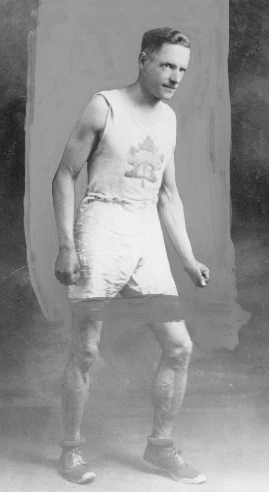 1924 Canadian Olympic Runner Arthur R Scholes Press Photo